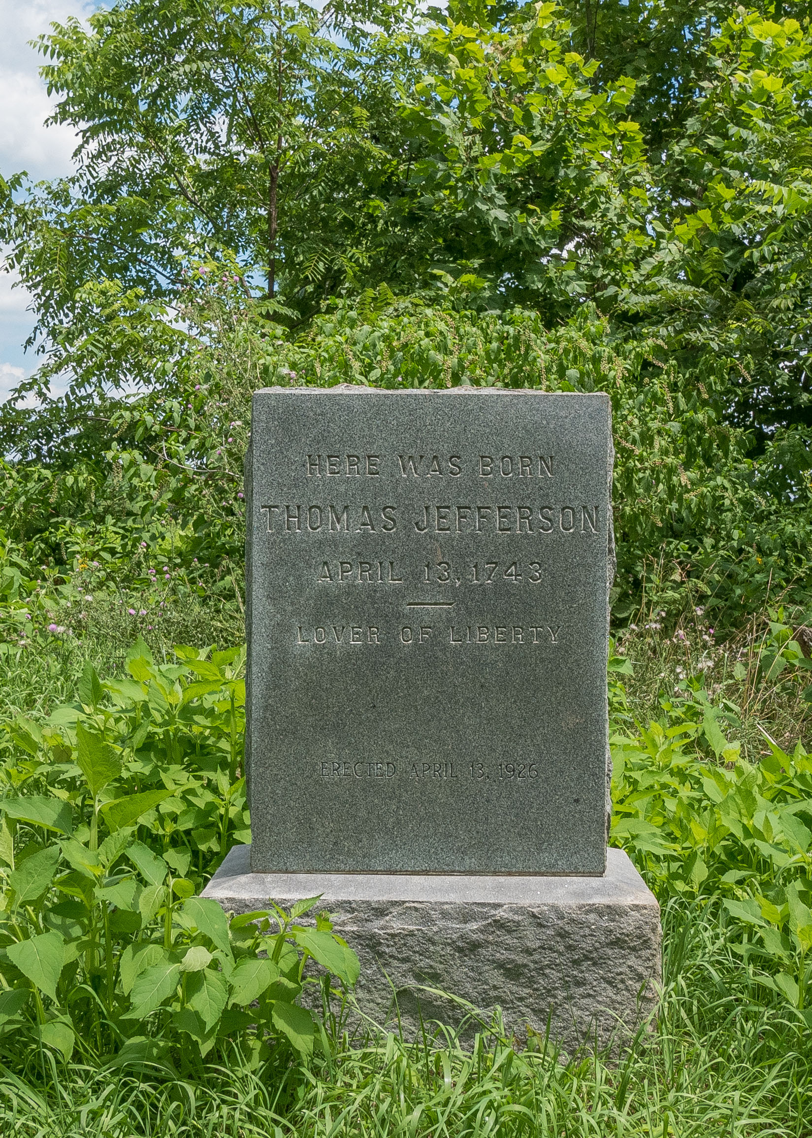 Commemorative stone erected at Thomas Jefferson’s birthplace in Shadwell, Virginia, in April 13, 1929.